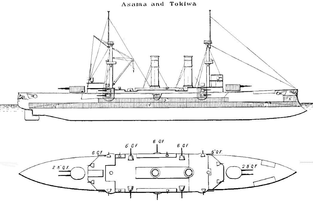 Sketch of the Japanese armoured cruisers Asama class.